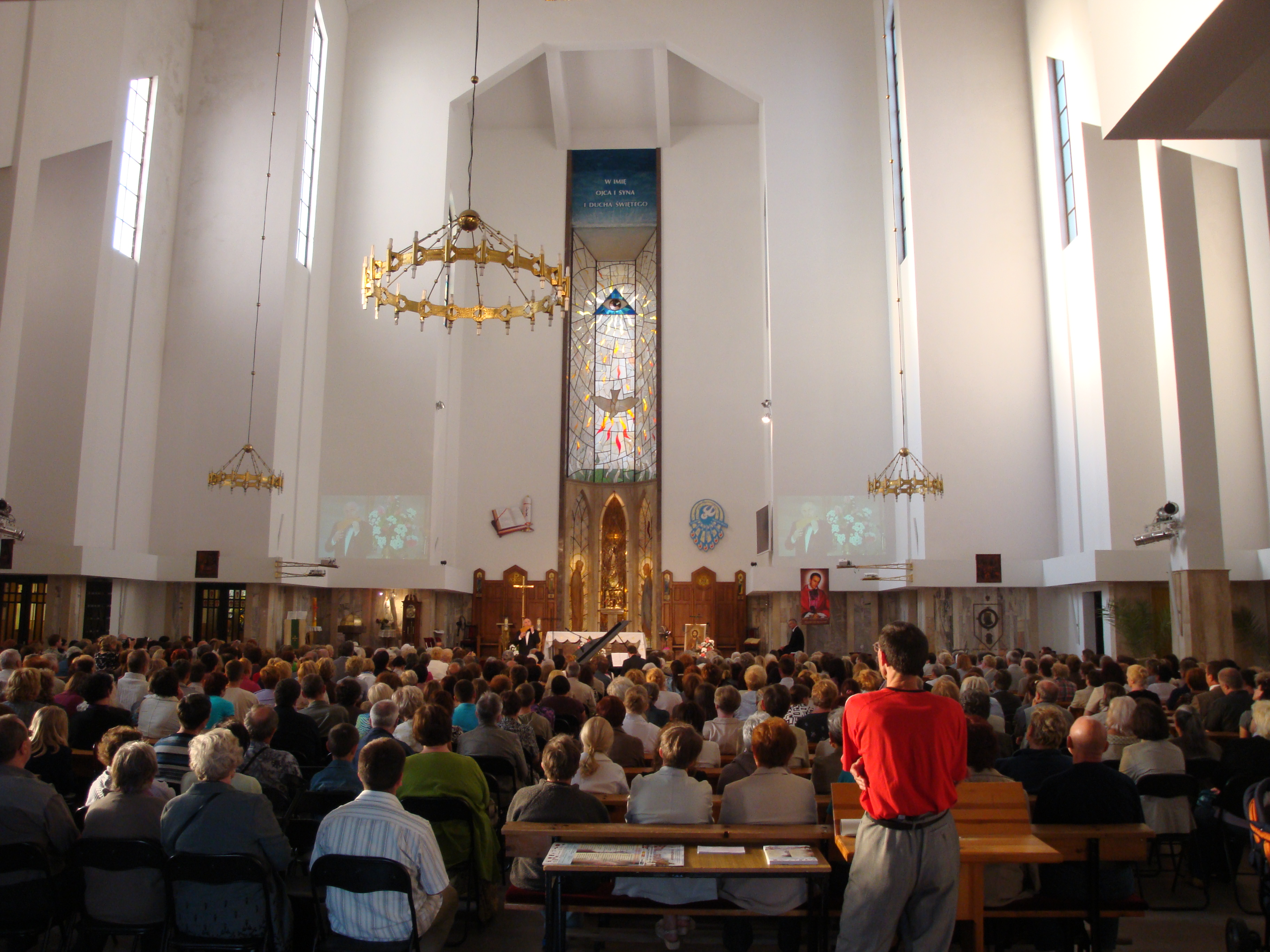 Church of Holy Family in Lublin, Poland. Interior during concert